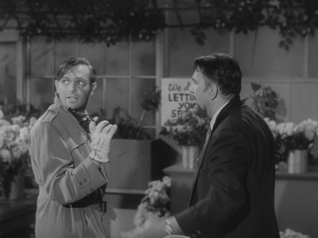 Charles B. Griffith as a robber in the public domain film The Little Shop of Horrors.